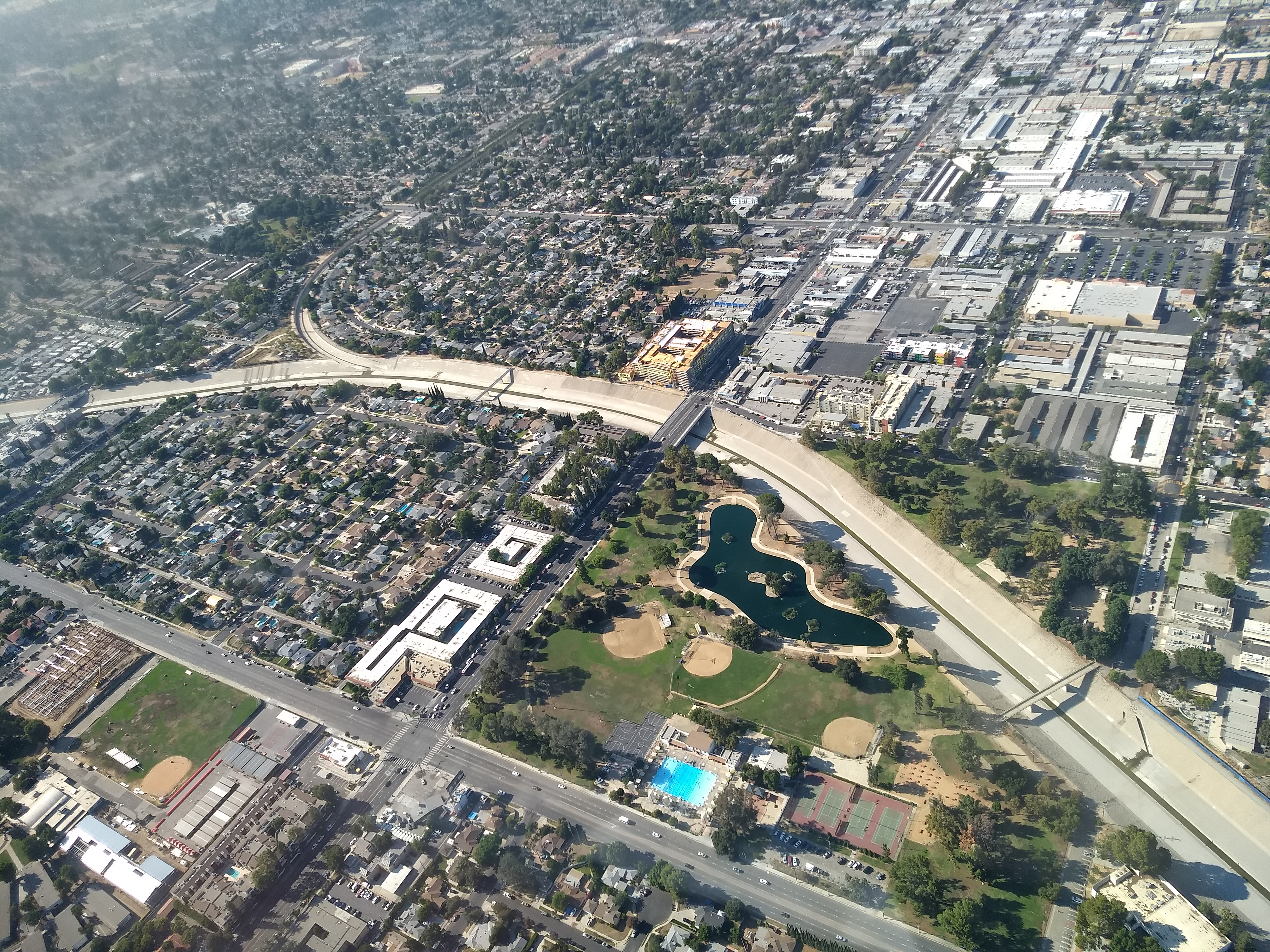 Taken on a Motorola cell phone on 2019/09/02 at 1630 PDT time through the window of a Cessna 162. Aliso Canyon Wash merges with Los Angeles River on the left of image.